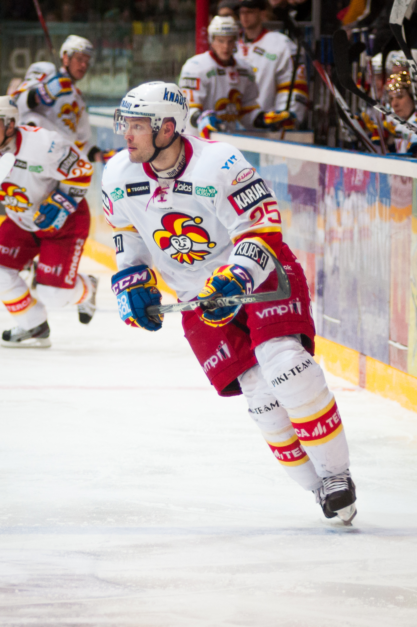 Finnish ice hockey forward Jarkko Ruutu playing for Jokerit Helsinki against SaiPa Lappeenranta in Lappeenranta, Finland.